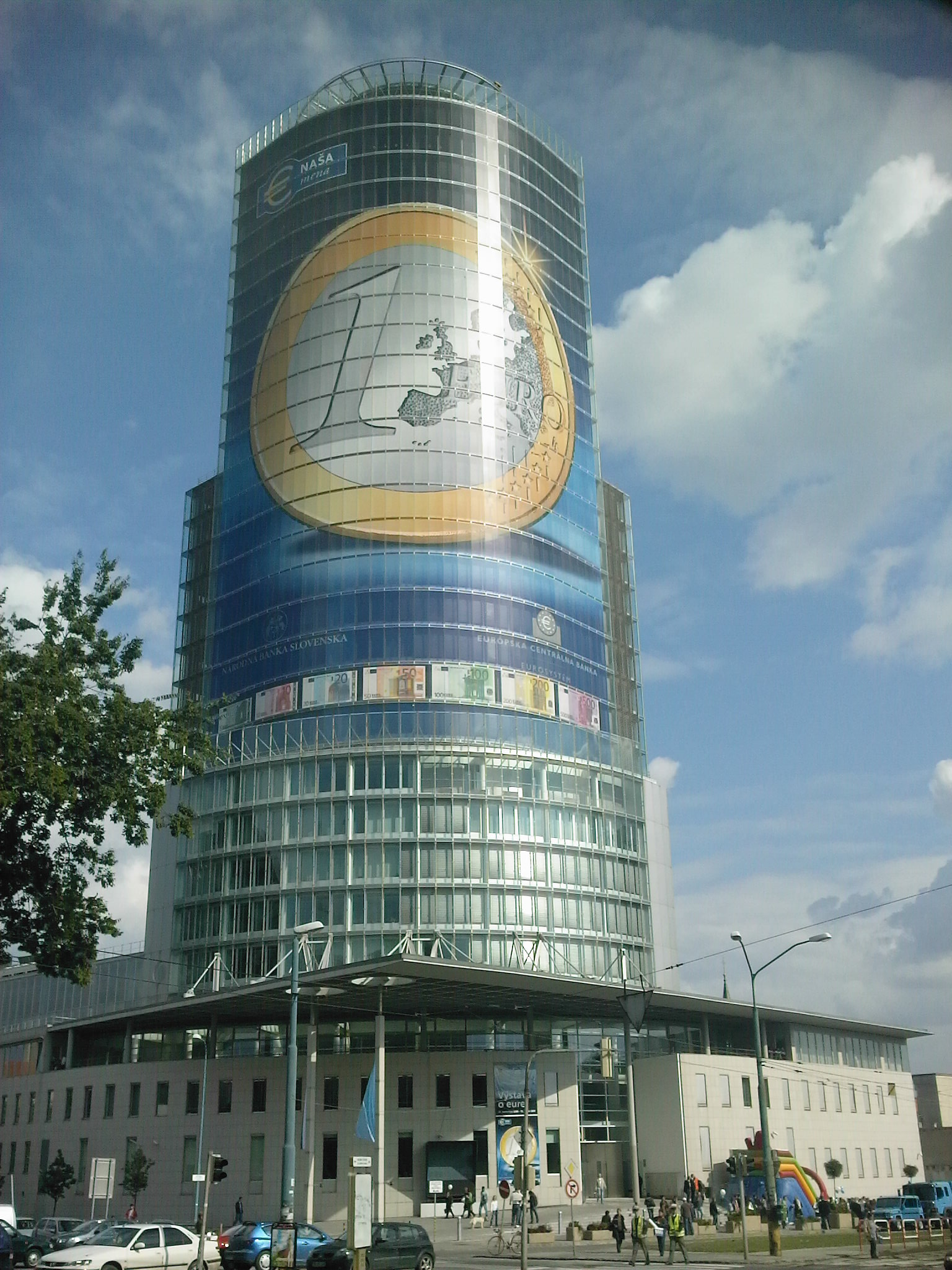 National bank of Slovakia expect euro currency